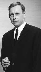 Founders Ger Daleboudt and Frits Goldschmeding (r) eight years after starting their company